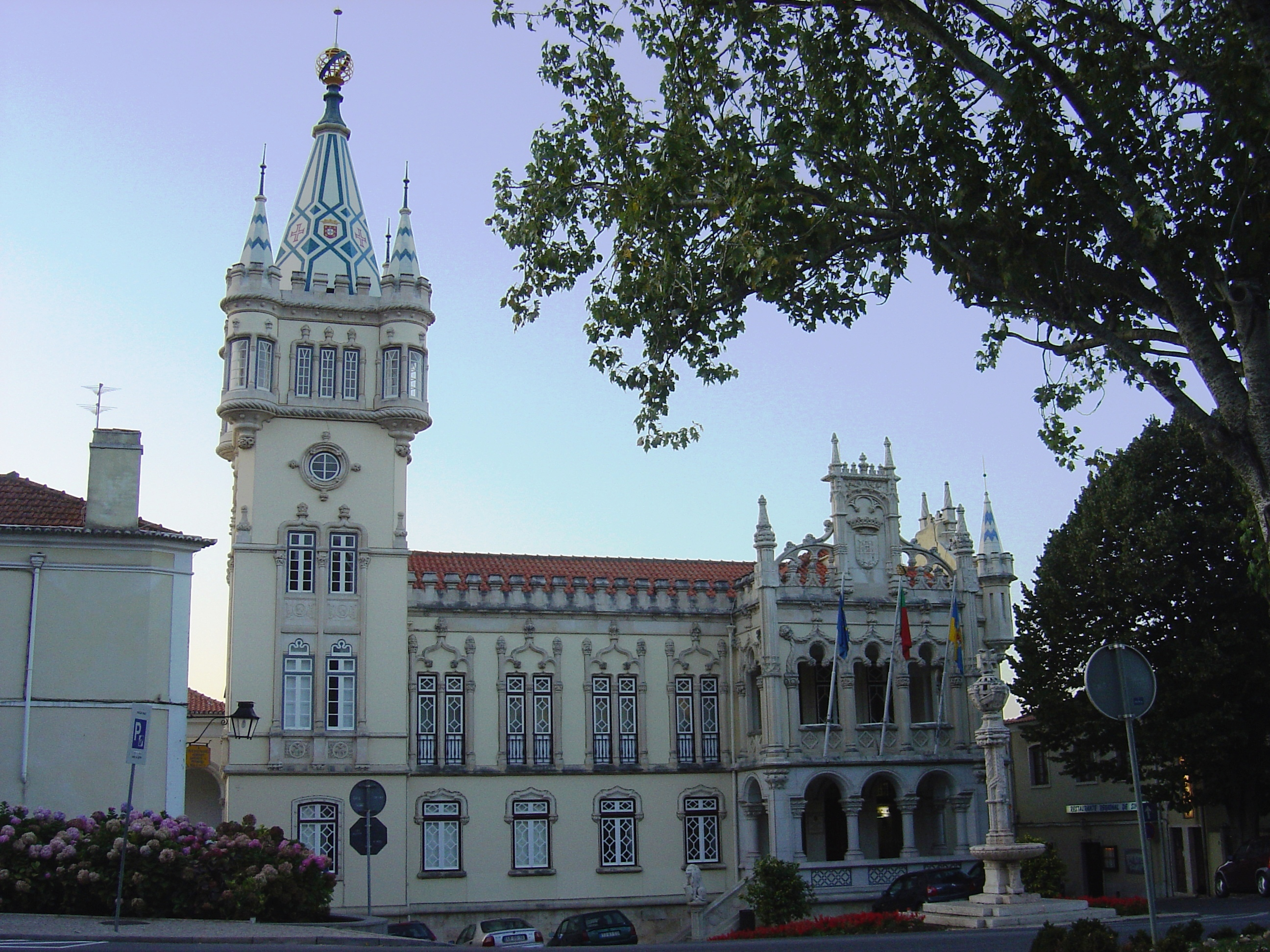 Old Town Hall, Sintra, Portugal